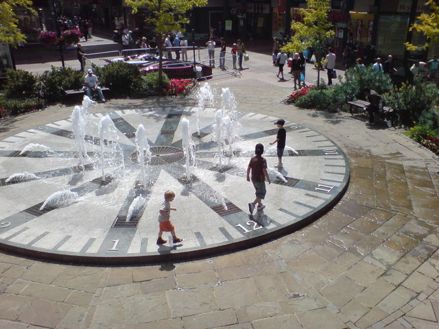 Clock Fountain, Charles Square, Bracknell, near to Bracknell, Bracknell Forest, Great Britain. The fountain, in Charles Square, is also a clock and tells the time, with the middle ring of jets representing the hours and the outer ring the minutes. It tells the time every five minutes, reverting to a random display of water jets in between.